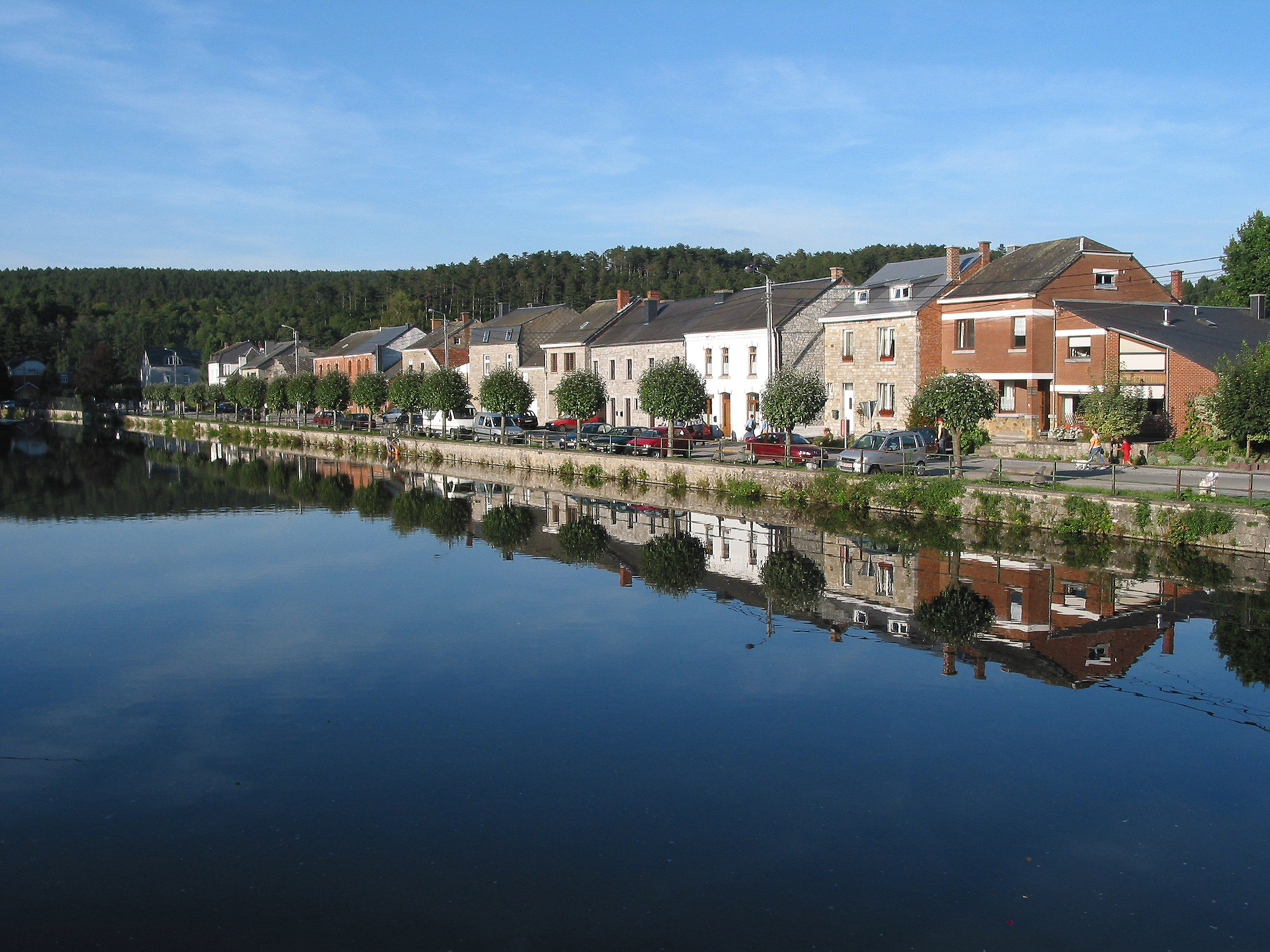 Han-sur-Lesse Belgium, the Lesse river and the rue du Plan d'Eau.